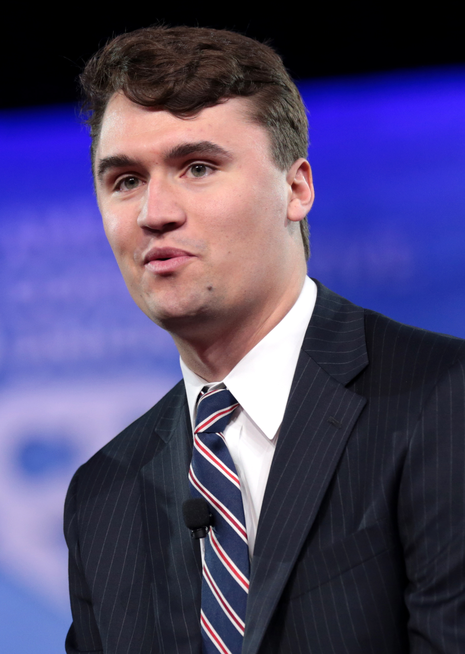 Charlie Kirk speaking at the 2017 CPAC in National Harbor, Maryland.